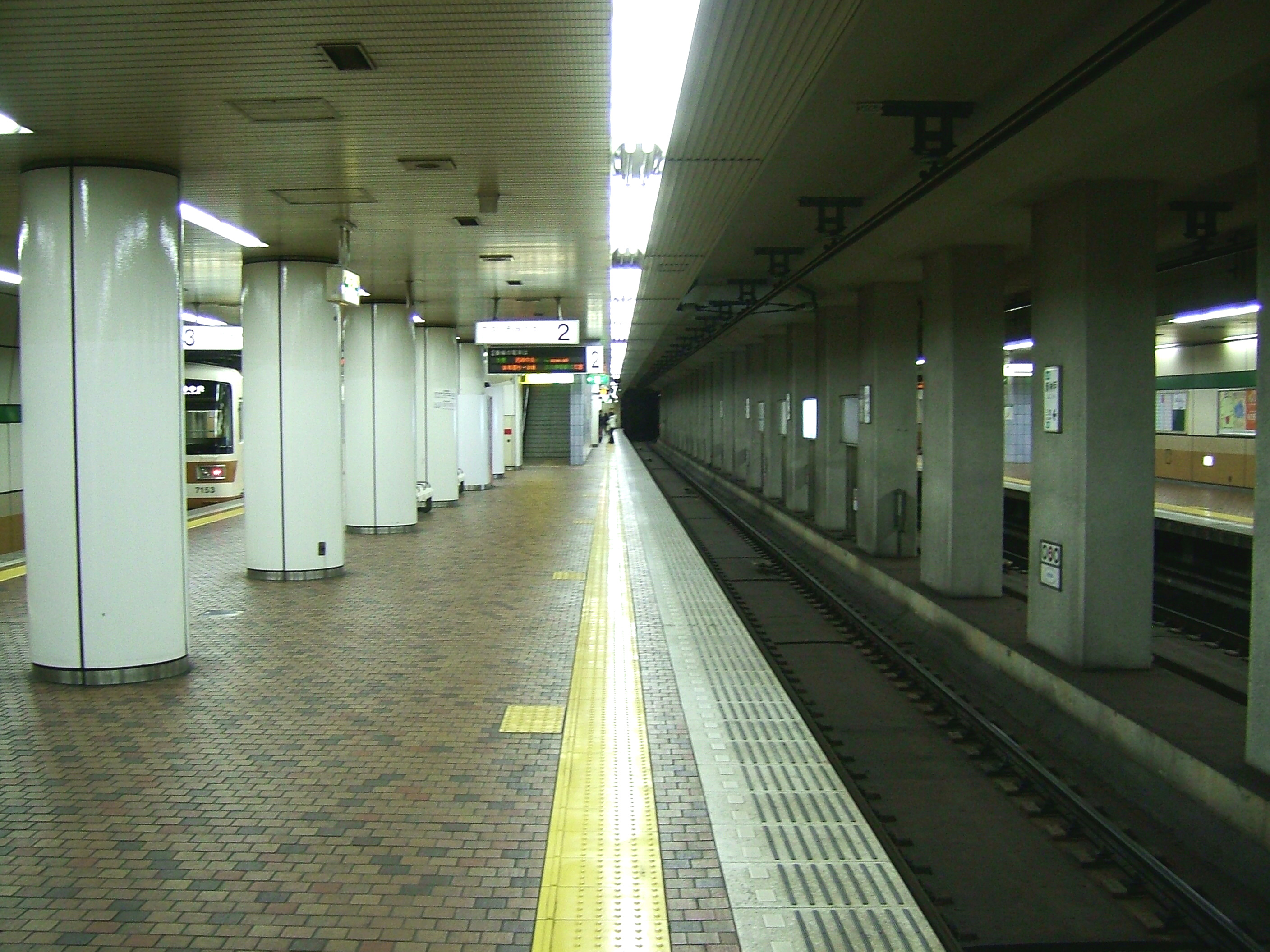 The platforms at Shin-Kobe Station on the Kobe Municipal Subway Hokushin-Yamate Line and Hokushin Kyuko Railway